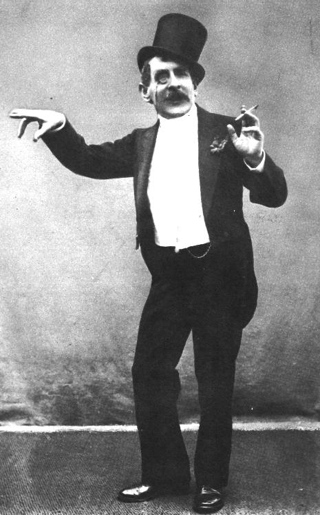 Charles Coborn, "The Man Who Broke the Bank at Monte Carlo" Music hall performer.